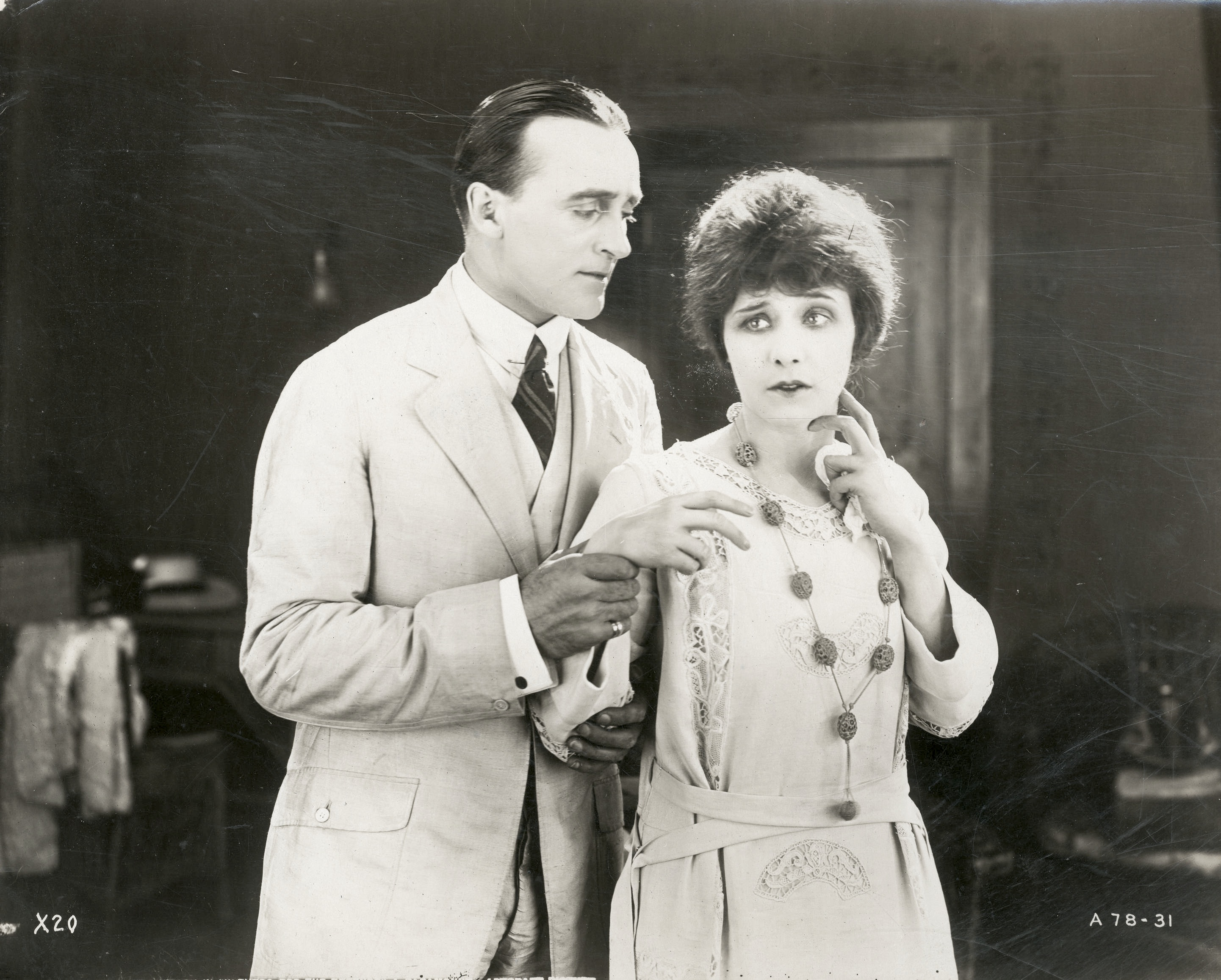 Wyndham Standing and Elsie Ferguson in the American drama film The Witness for the Defense (1919) - cropped screenshot